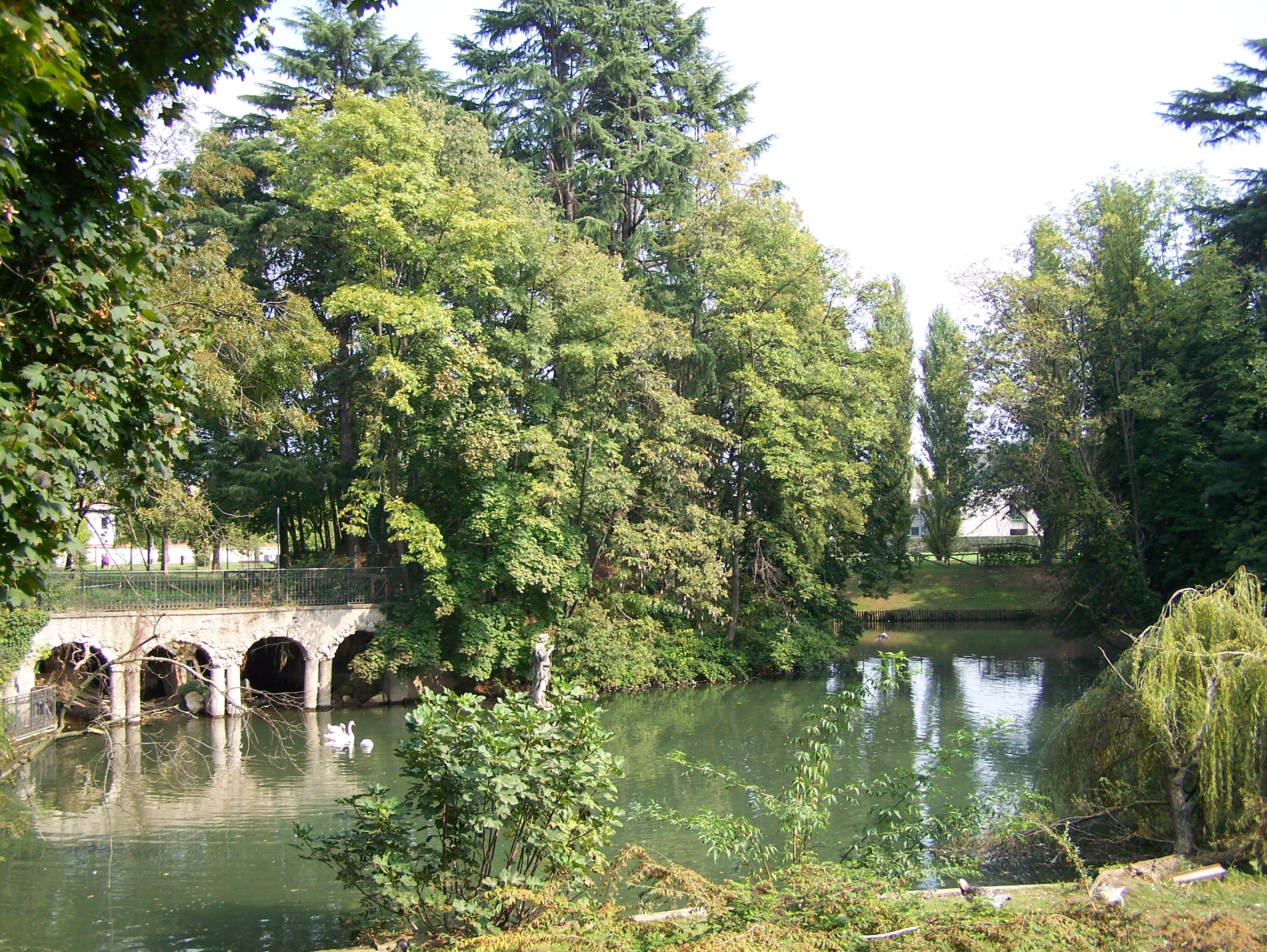 Villa Frisiani-Olivares-Ferrario, little lake in the garden. Corbetta (MI) - Italy